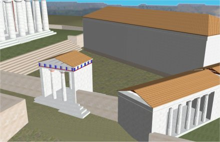 Computer generated reconstruction of the Chalkotheke (treasury) on the Acropolis of Athens.